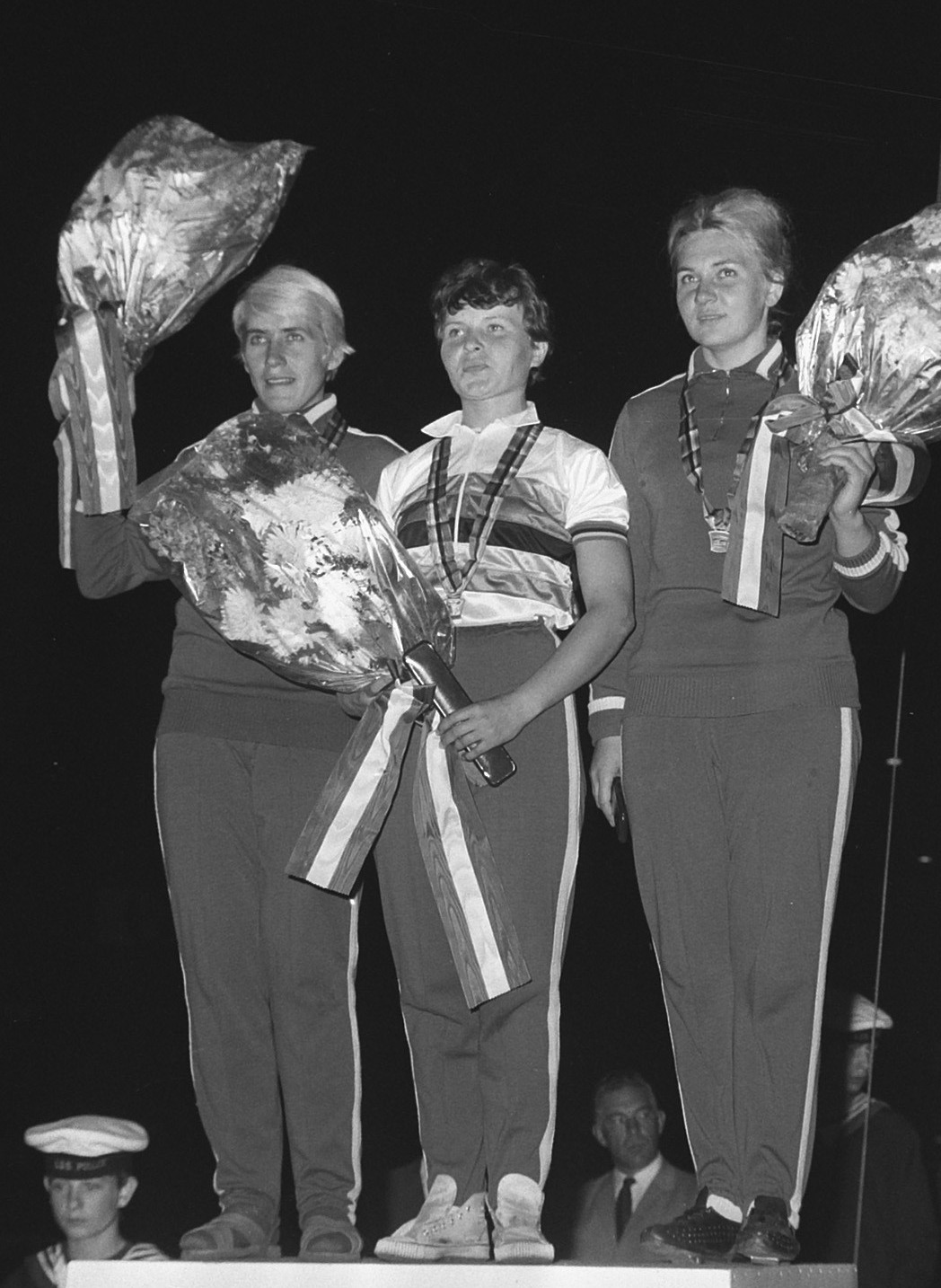 WK Wielrennen, sprint finale dames. Nummers 1.2 en 3 dames sprint op podium